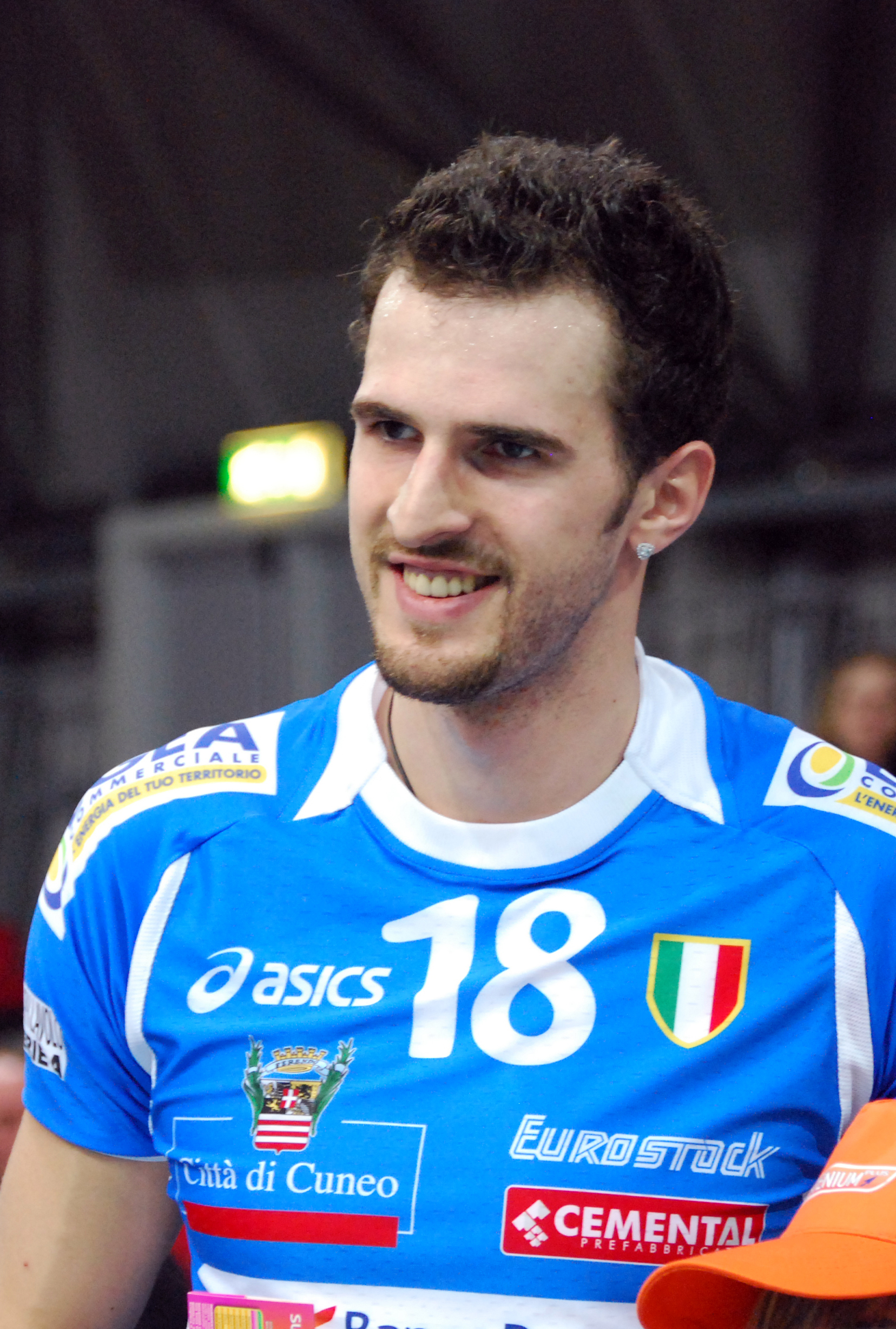 I took this photo during a volleyball match in Piacenza